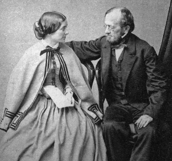 Elisha Hunt Allen (1804-1883) was an American congressman who then became chief justice of the supreme court for the Kingdom of Hawaii. He died in the White House while visiting Chester Arthur.